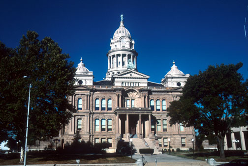 County Courthouse Photos: Miami County Courthouse (Built 1888), Troy, Ohio